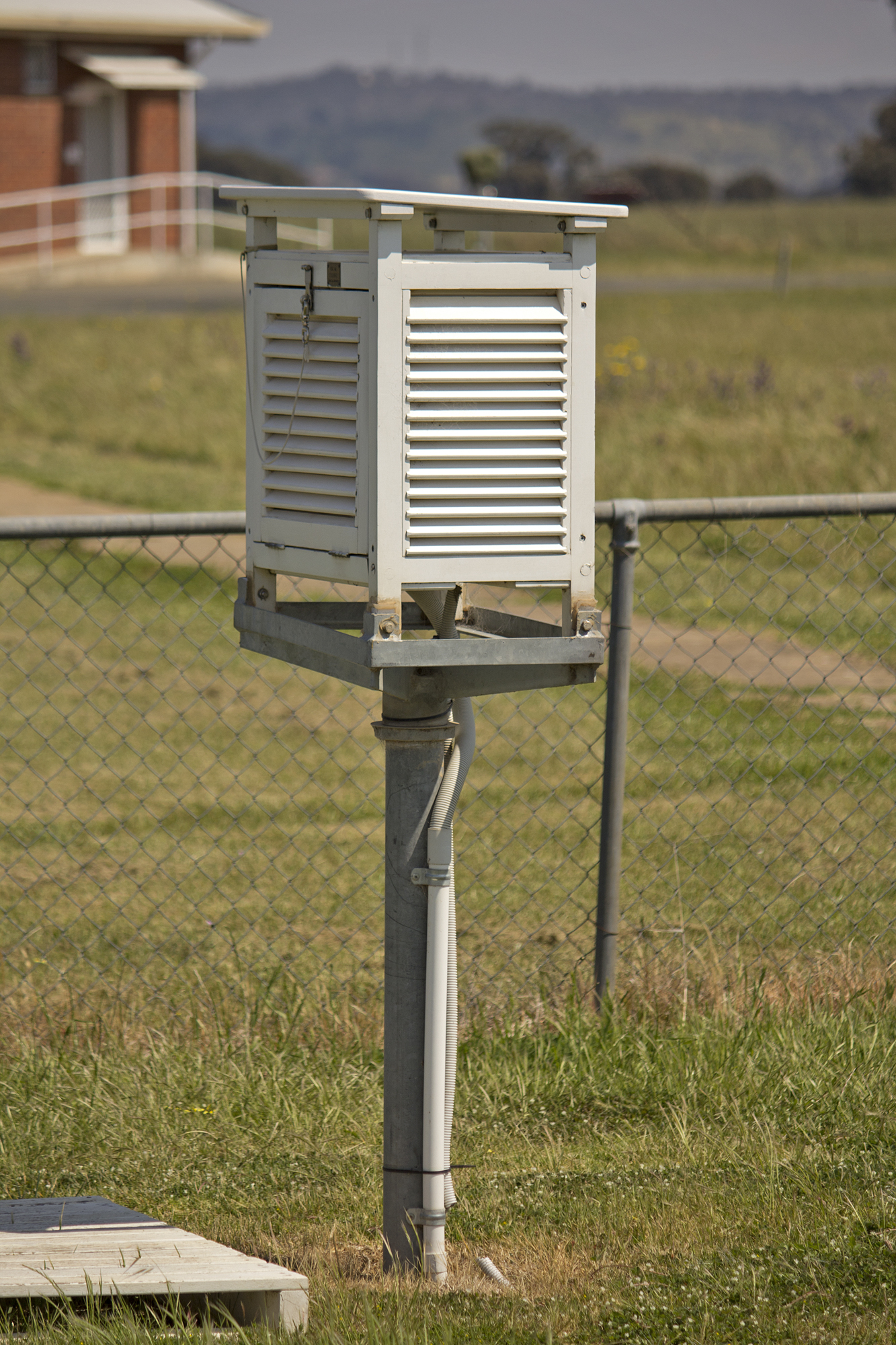 Automatic Weather Station (AWS) stevenson screen at the Airport Meteorological Office (AMO) at Wagga Wagga Airport.